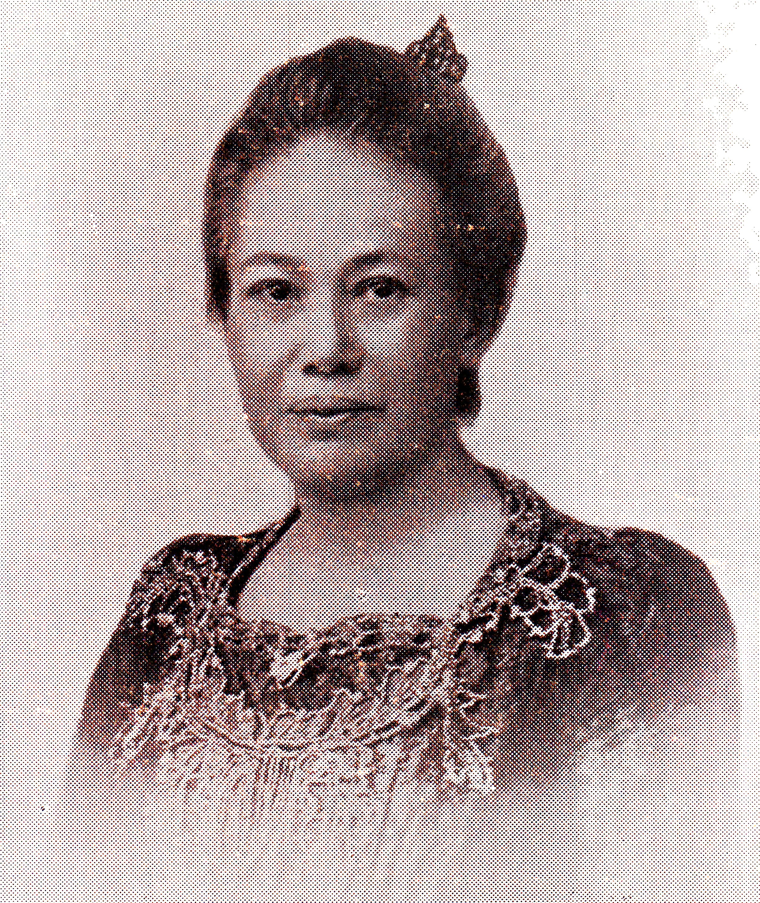 Johanna Carolina van der Wal